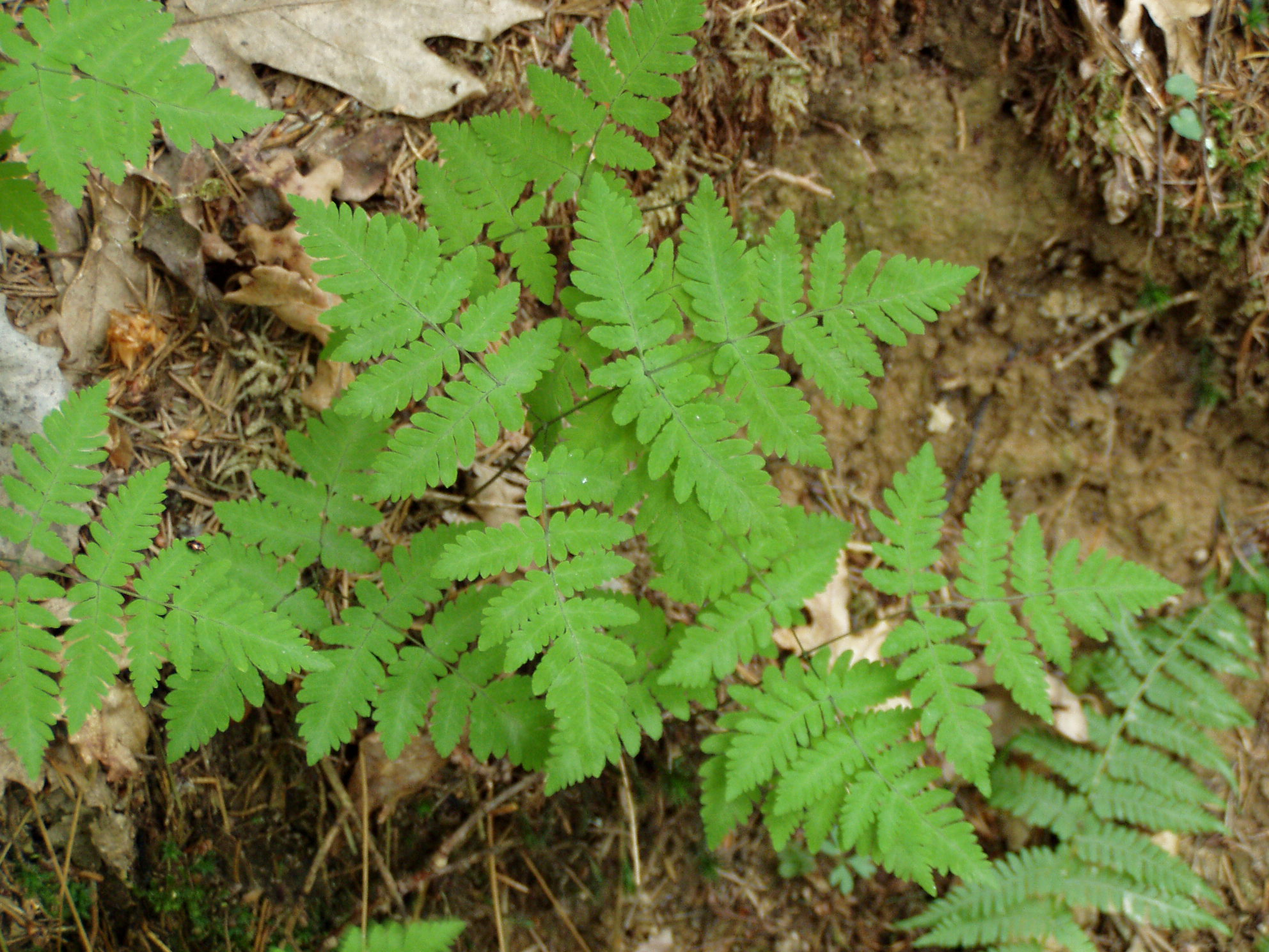 Gymnocarpium dryopteris, Lavanttal, Carinthia